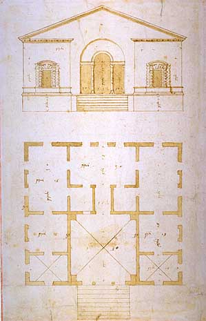 Villa Valmarana in Vigardolo of Monticello Conte Otto, province of Vicenza. Drawing of the project by Andrea Palladio (London, RIBA XVII/2R).